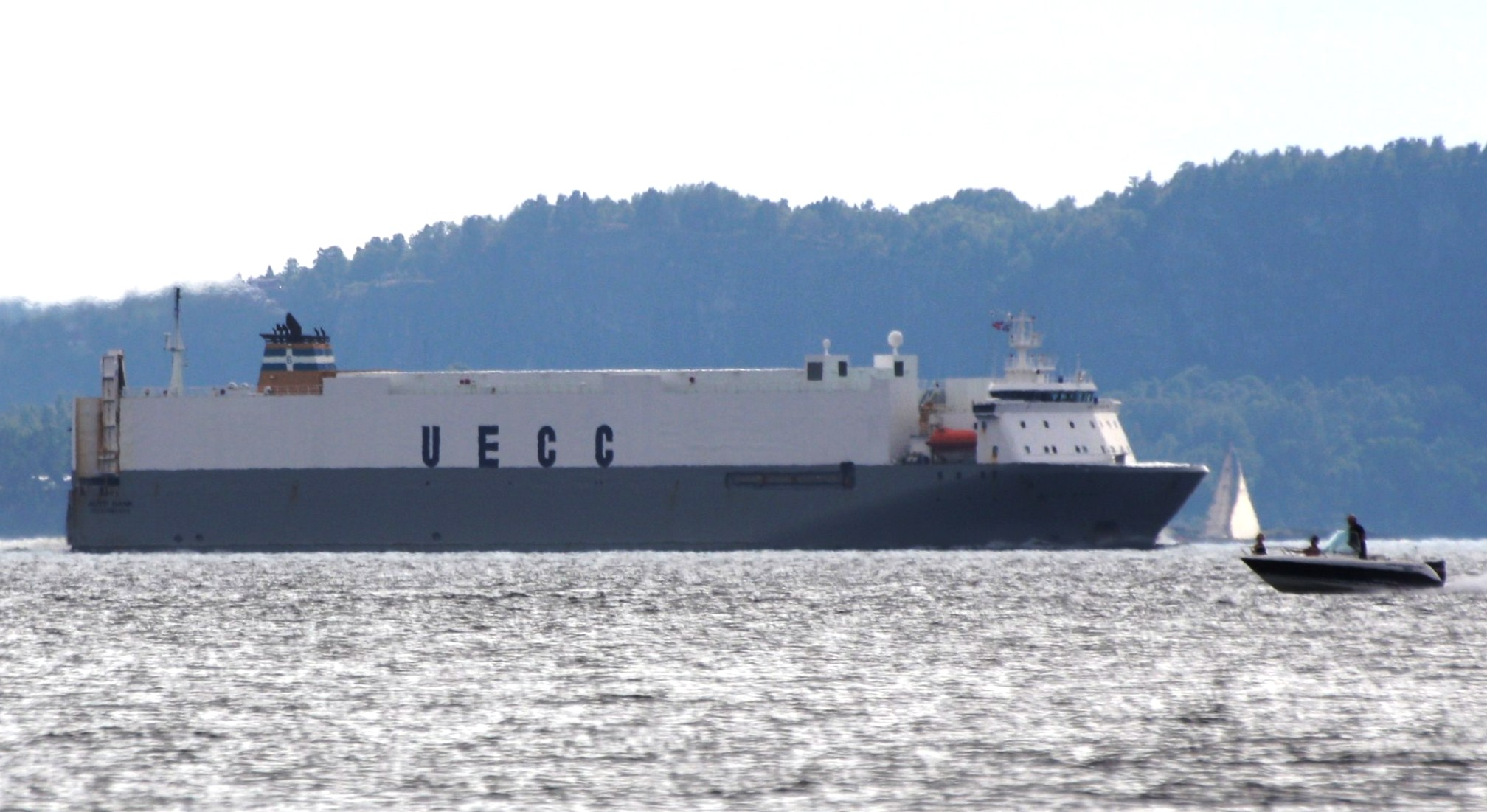 M/V Auto Baltic of the UECC shipping company, a ro-ro ferry trafficking northern Europe. Registered in Helsinki, built in 1996. IMO number is 9121998. Photo from the Breiangen outlet of Drammensfjorden into Oslofjorden, east Norway.